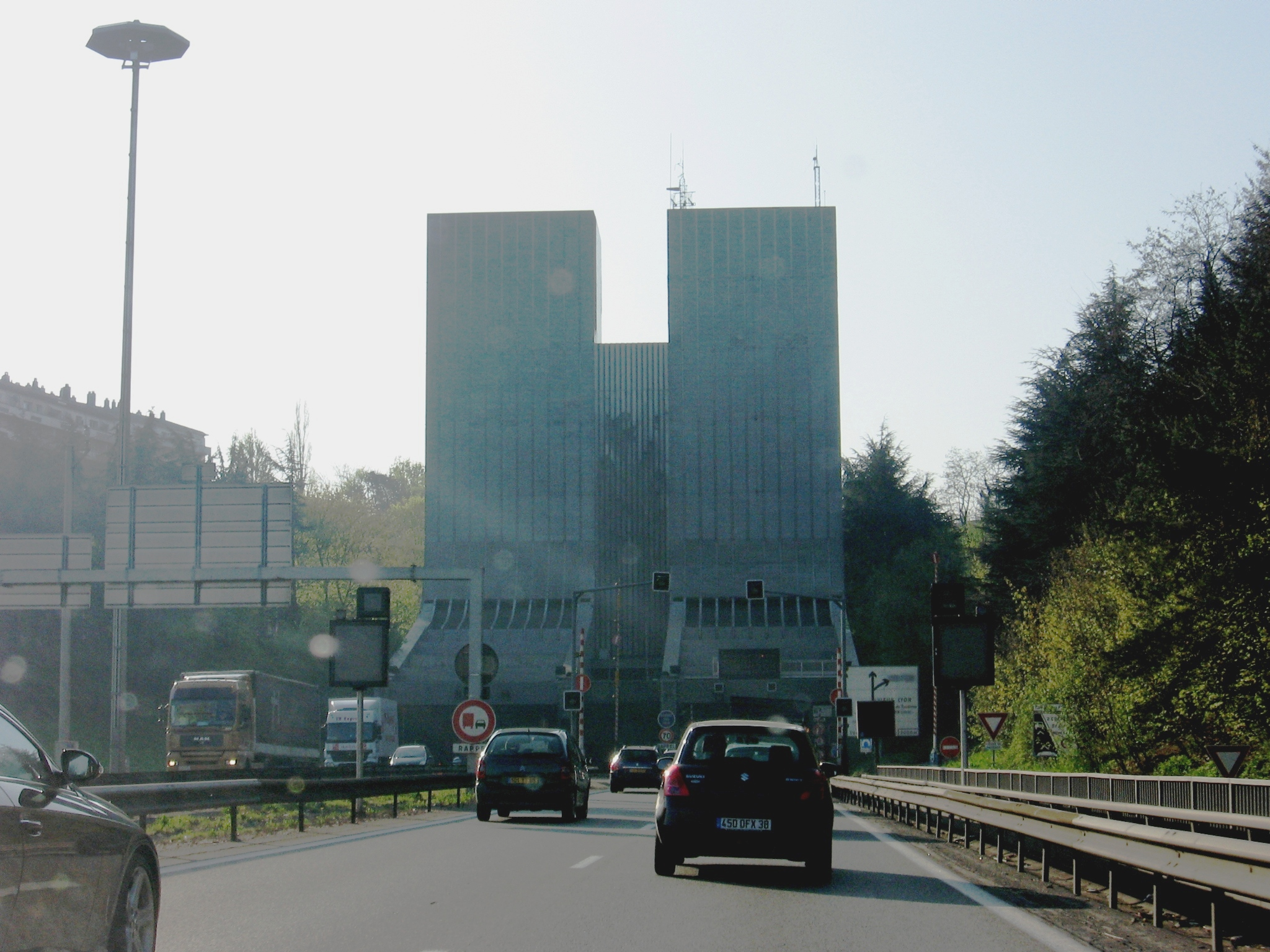 Tunnel de Fourvière, nord side, Lyon